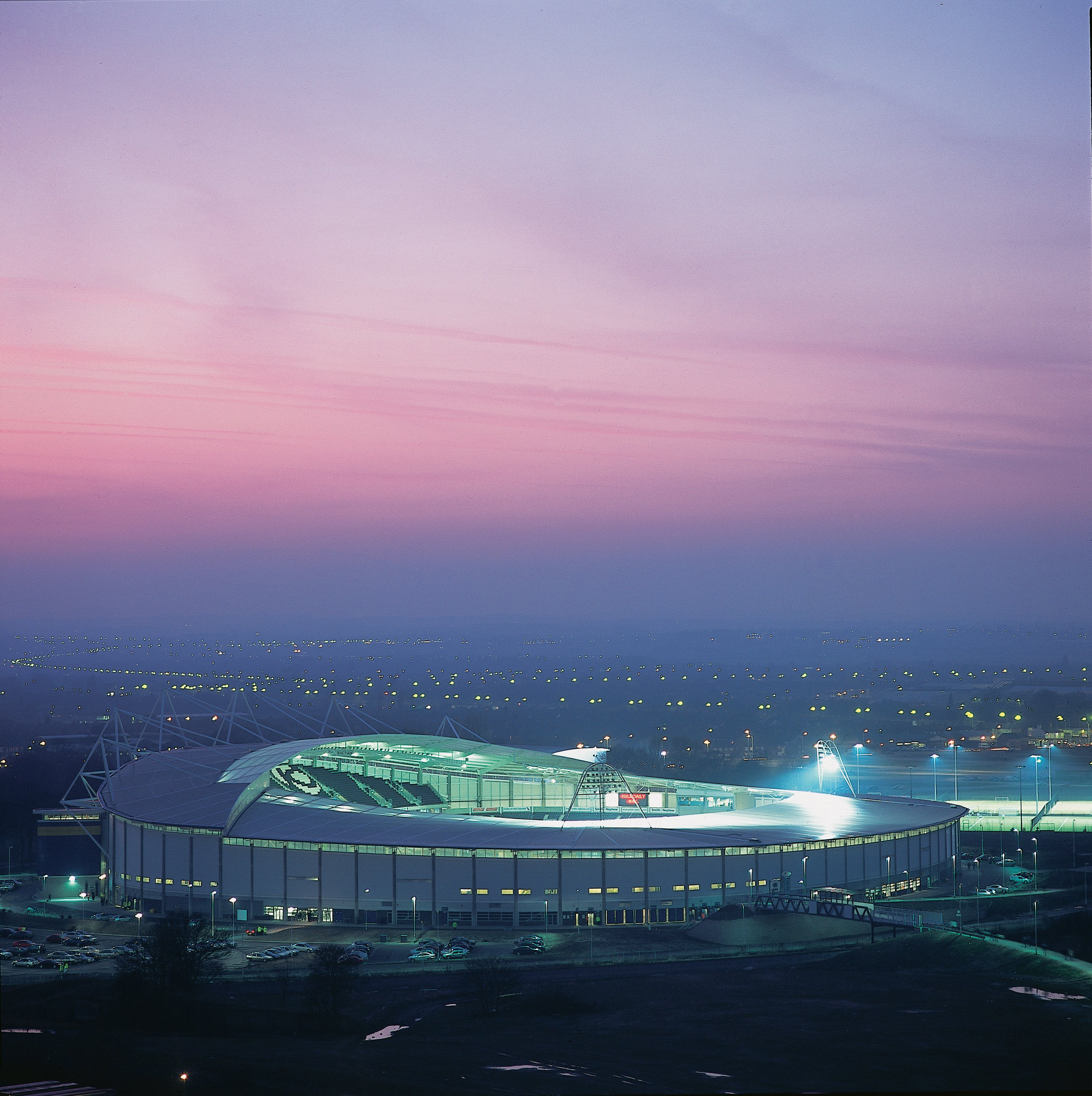 The Kingston Communication Stadium, in Kingston-upon-Hull, viewed at dusk.